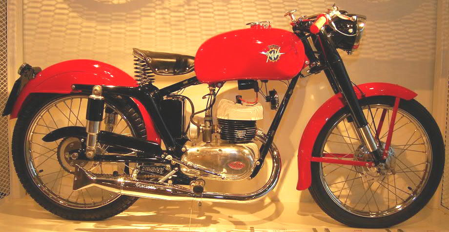 1952 150cc Turismo